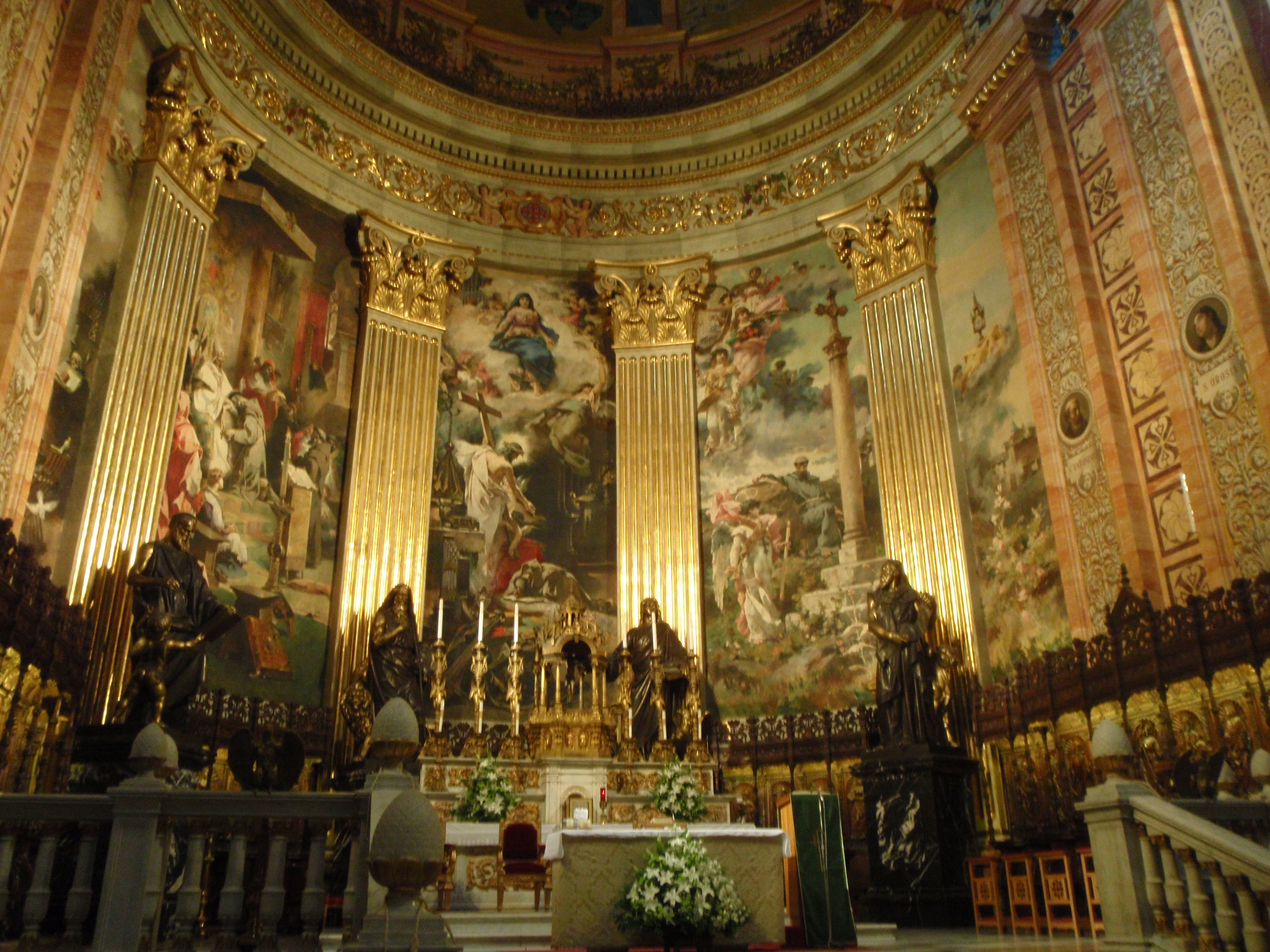 Interior of the Basílica de San Francisco el Grande (Basilica of St. Francis of Assisi) in Madrid (Spain).